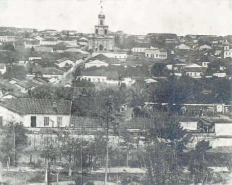 Campinas Center in 1880 - São Paulo, Brazil.